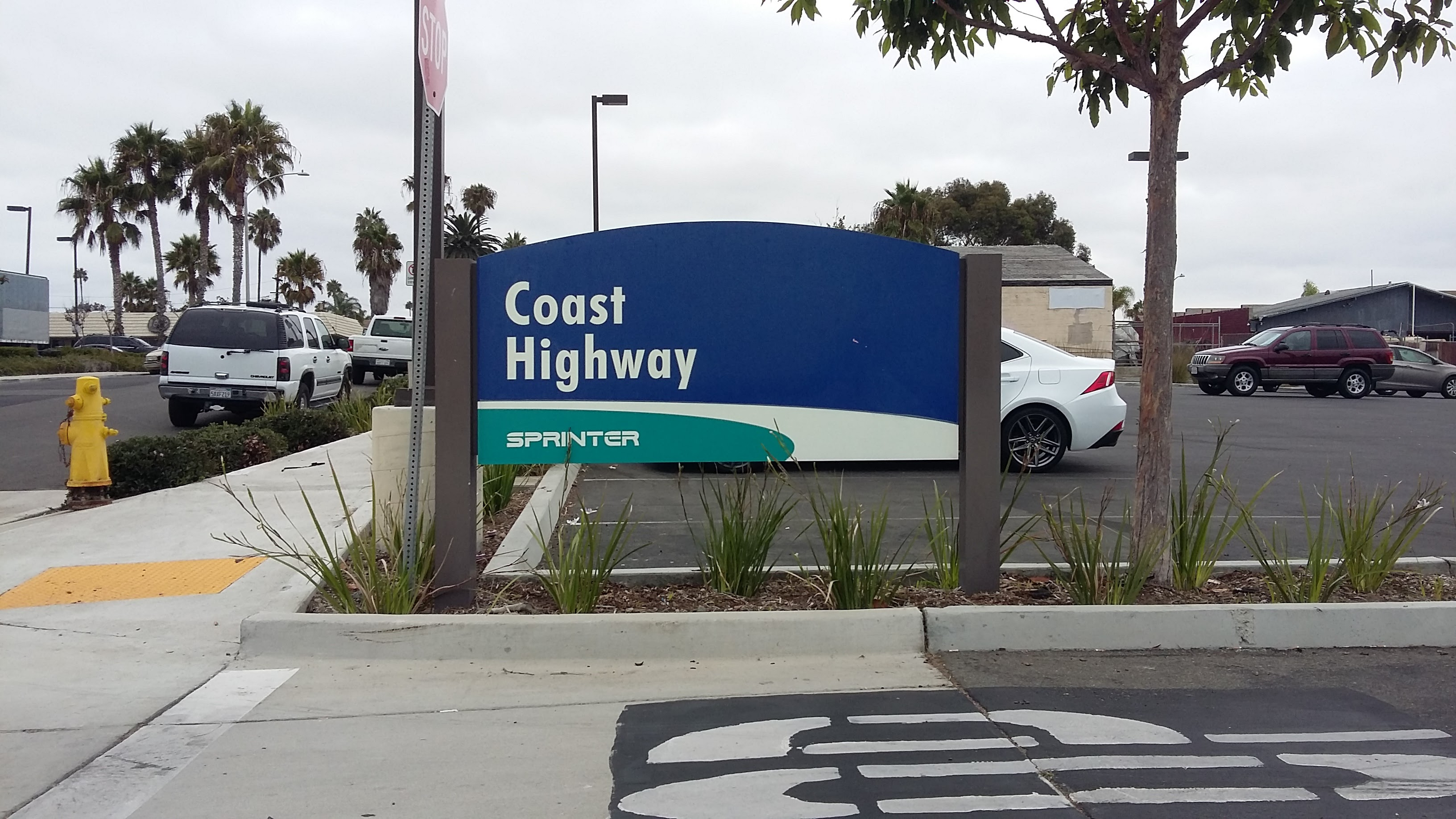 Coast Highway, SPRINTER sign